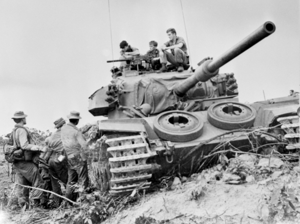 AWM image CRO/68/0688/VN. Phuoc Tuy Province, South Vietnam. 1968-07-09. Members of 1st Battalion, The Royal Australian Regiment (1RAR), speak with crew members of a Centurion tank of C Squadron, 1st Armoured Regiment, Royal Australian Armoured Corps (RAAC), during Operation Blue Mountains. The operation was a five day reconnaissance-in-force and was staged in south-east Phuoc Tuy Province in the Long Hai Hills.